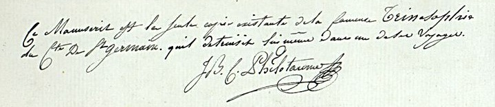 Bookseller's note attached to MS 2400